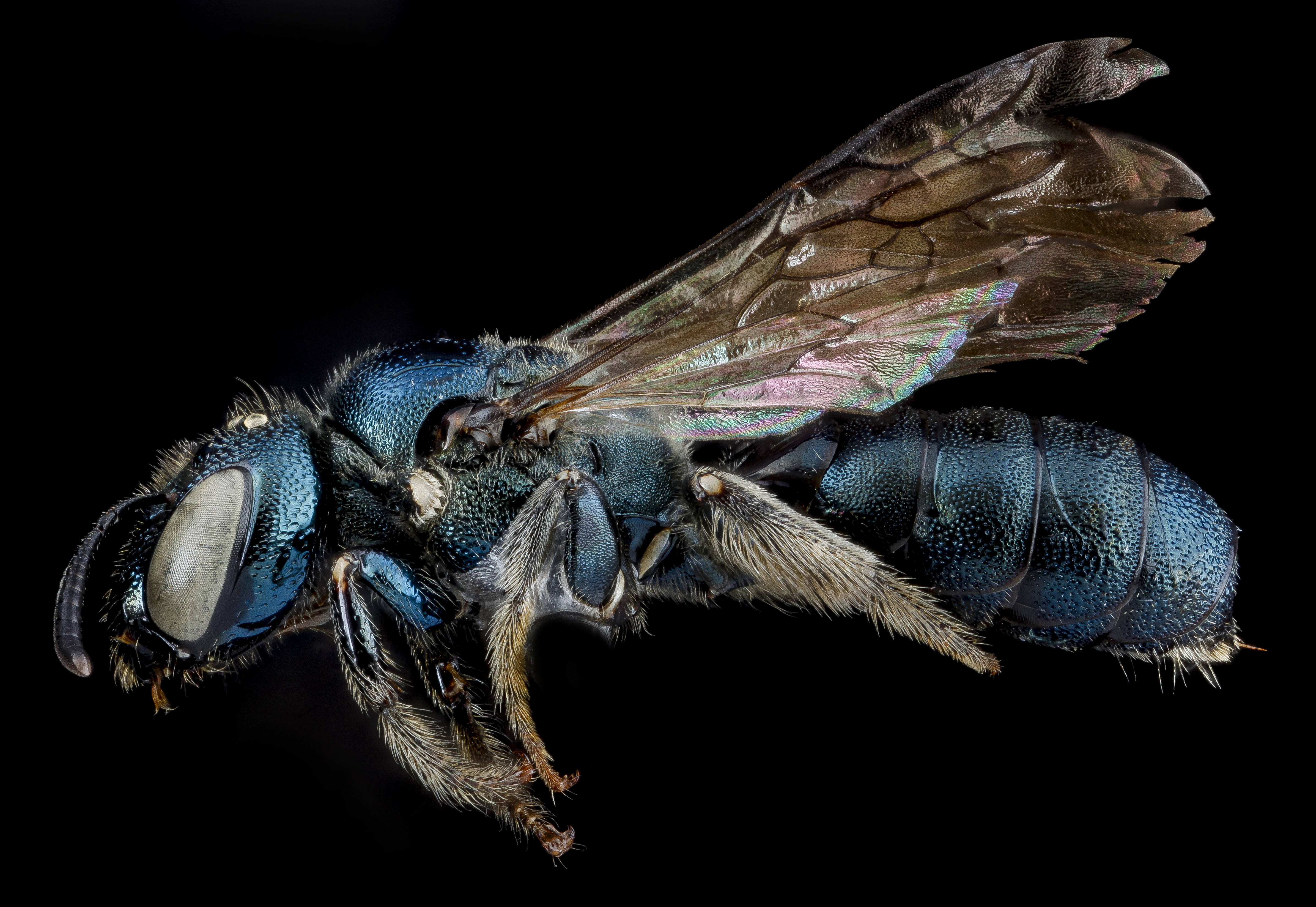 Ceratina dupla, F, side, New York, Kings County_2013-02-14-14.33.19 ZS PMax